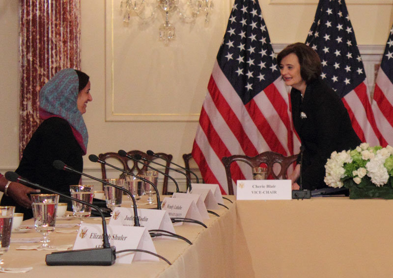 Cherie Blair, vice chair of the council, greets council member Lubna Al Qasimi, an entrepreneur from the United Arab Emirates. (Shirley Li/Medill)